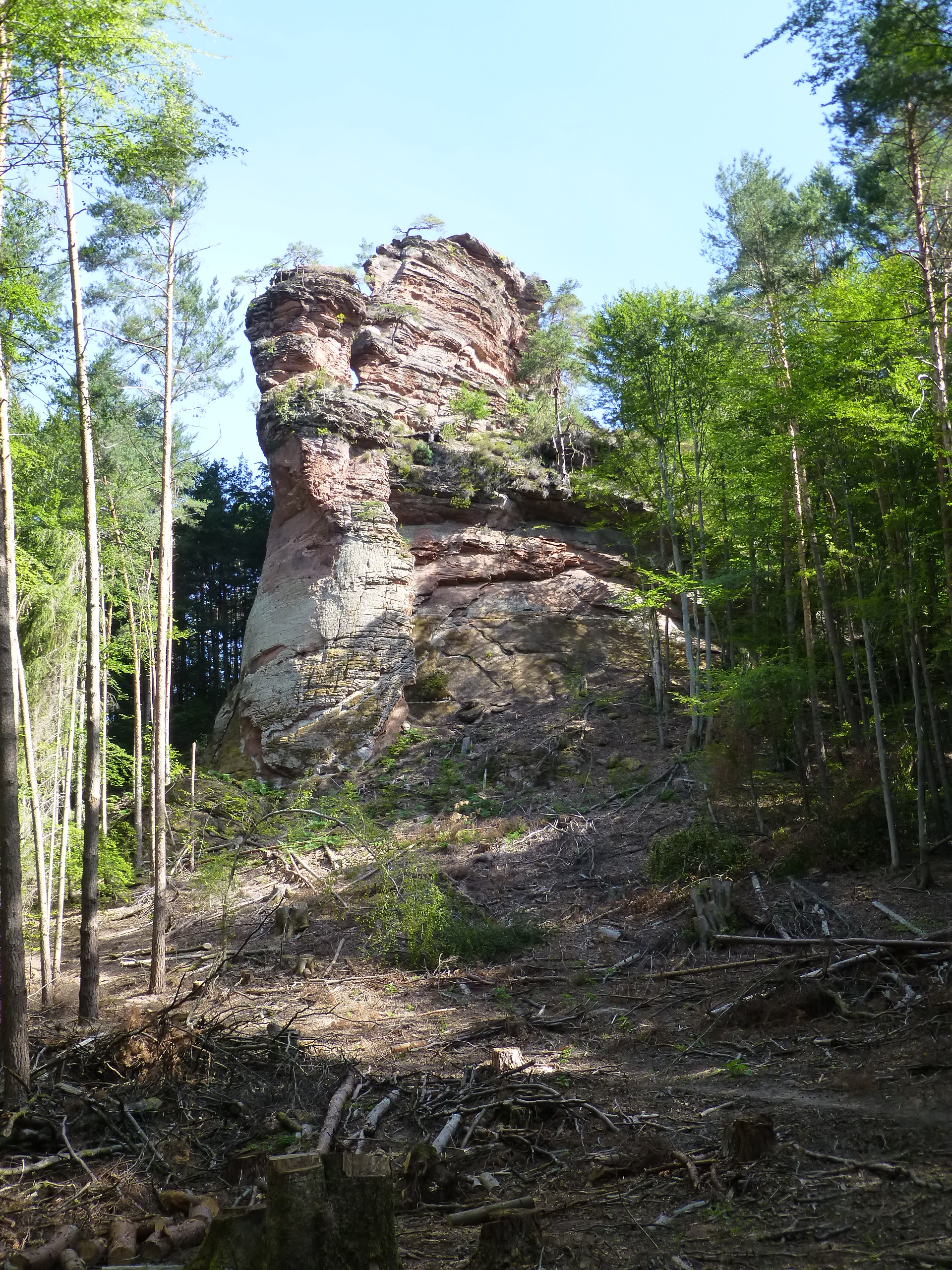 Stephansturm below Hoher Kopf (442 m), Hauenstein near Queich stream.